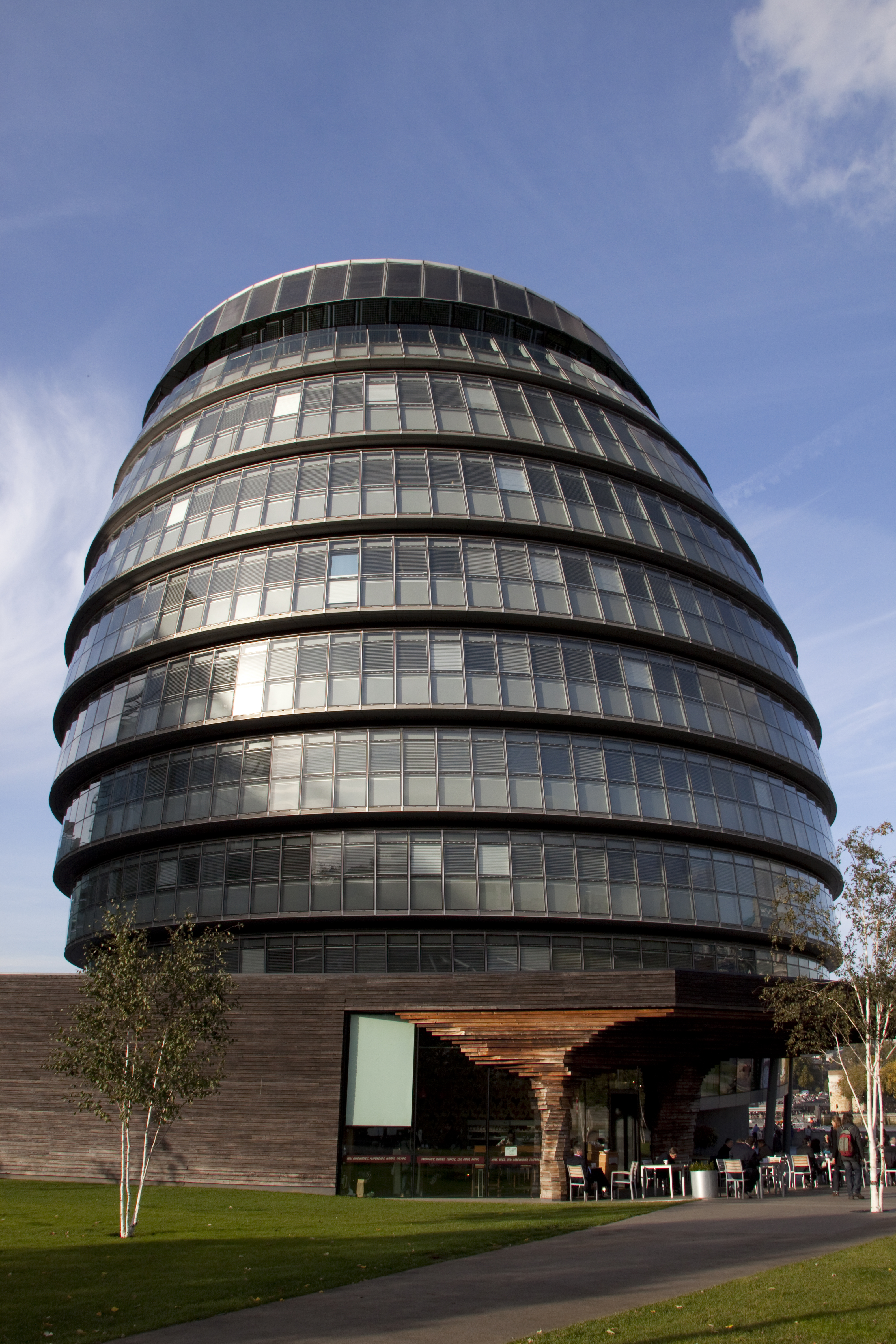 City Hall London 3